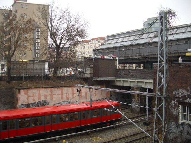 Berlin's S-Bahn circle line at Schönhauser Allee station; Berlin, Germany